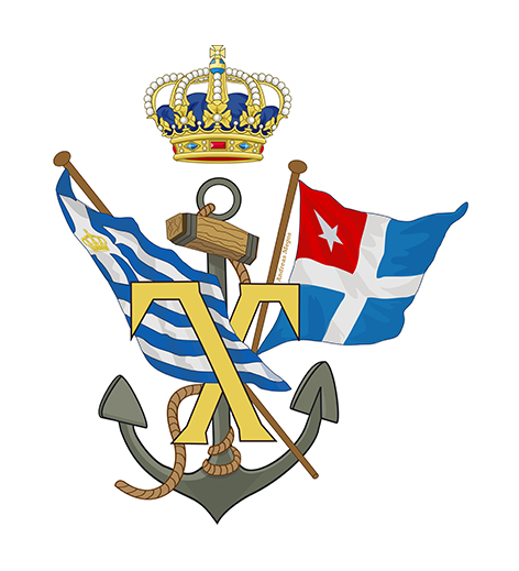 Personal Arms of Prince George as High Commissioner of the Cretan State